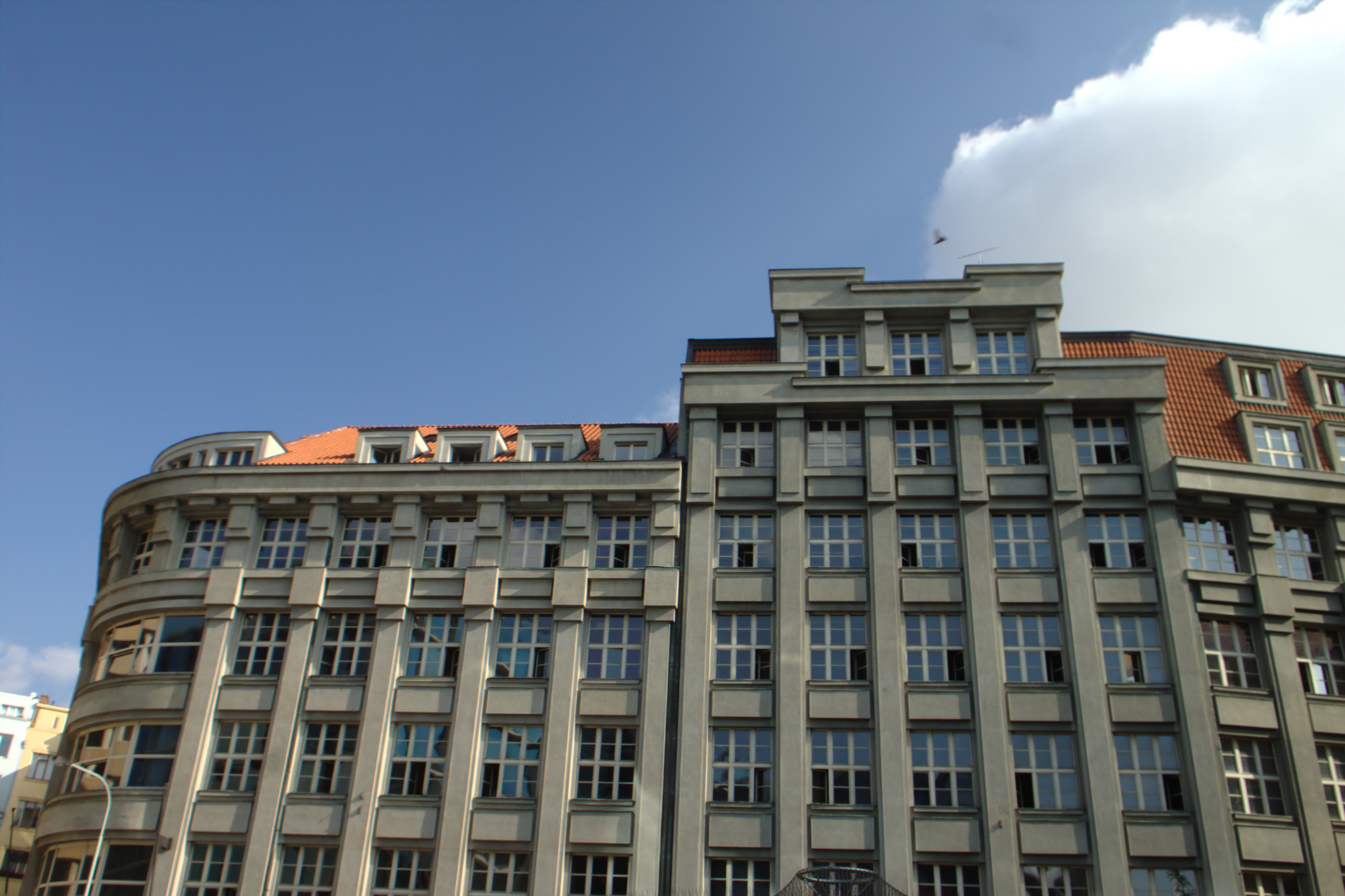 Škoda's palace in Prague, nowadays used by the Prague City Hall